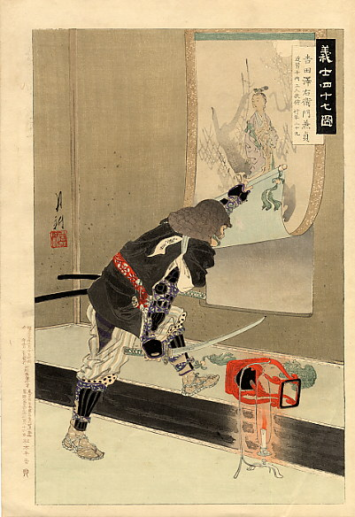 Ronin are masterless samurai. Chushingura is the true story of 47 samurai who became masterless in 1701, after their lord had been forced to commit ritual suicide (seppuku) for assaulting a court official who had insulted him. They avenged him by killing the court official after patiently planning for over a year. They were themselves then forced to commit seppuku.